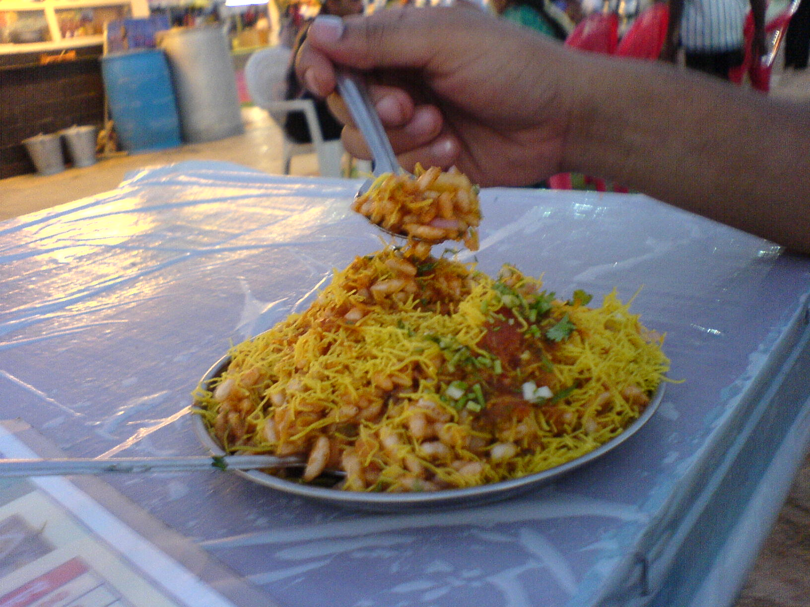 Typical Bombay snack food at one of Bombay's two main beaches.Bhel Puri at Juhu Beach